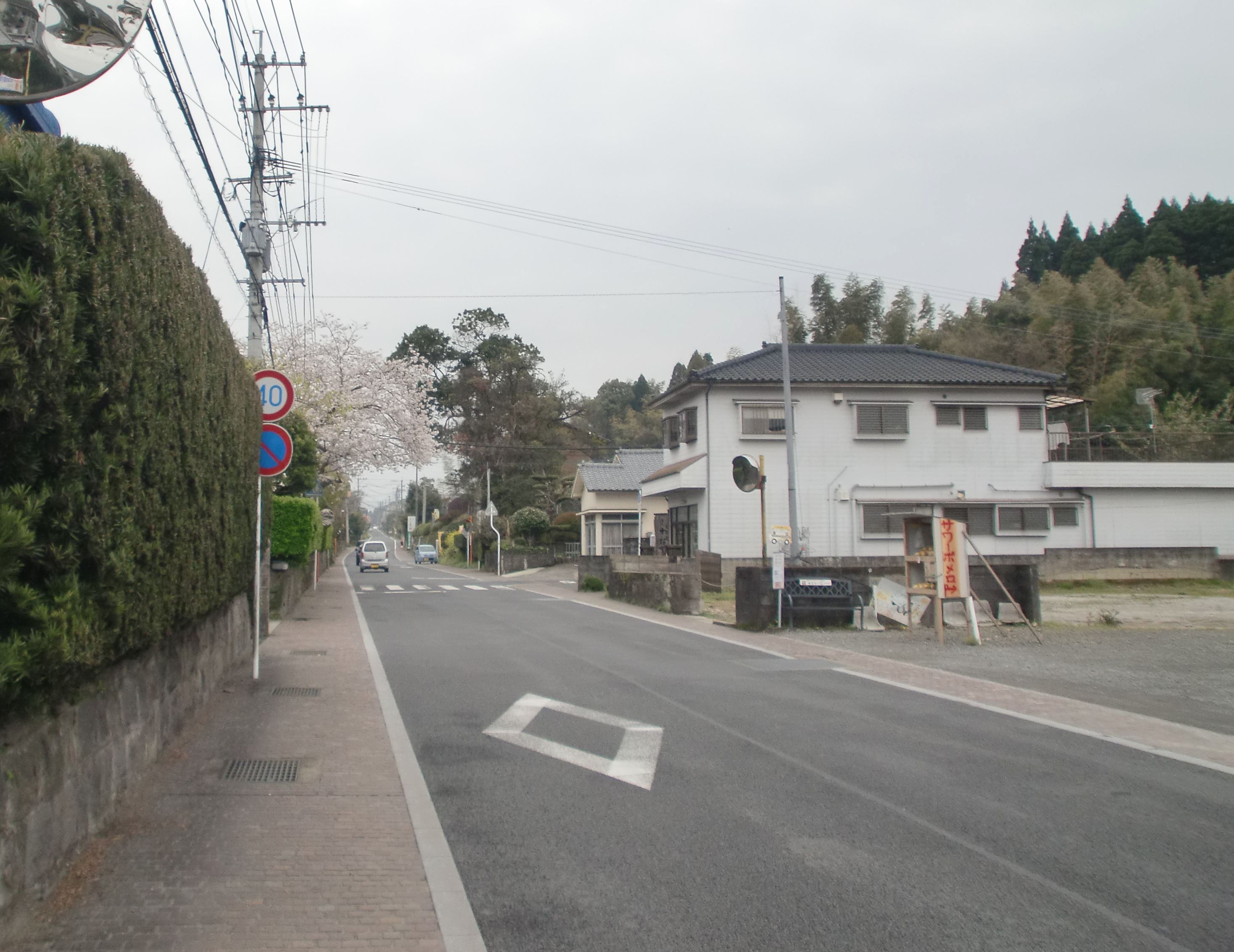 The Kagoshima Prefectural Road Route 24 and Satsuma-yaki pottery studios along the way